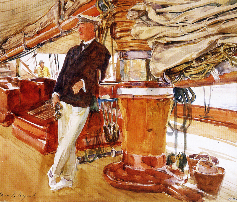 "On the Deck of the Yacht Constellation," watercolor, by American artist John Singer Sargent. Courtesy of the Peabody Essex Museum, Salem, Massachusetts